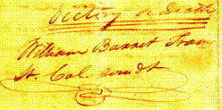 This is the signature of a letter (commonly known as "To the People of Texas & All Americans in the World") written by William Barret Travis in February 1836 and published shortly thereafter. This snippet reads Victory or Death William Barret Travis Lt. Col. comdt